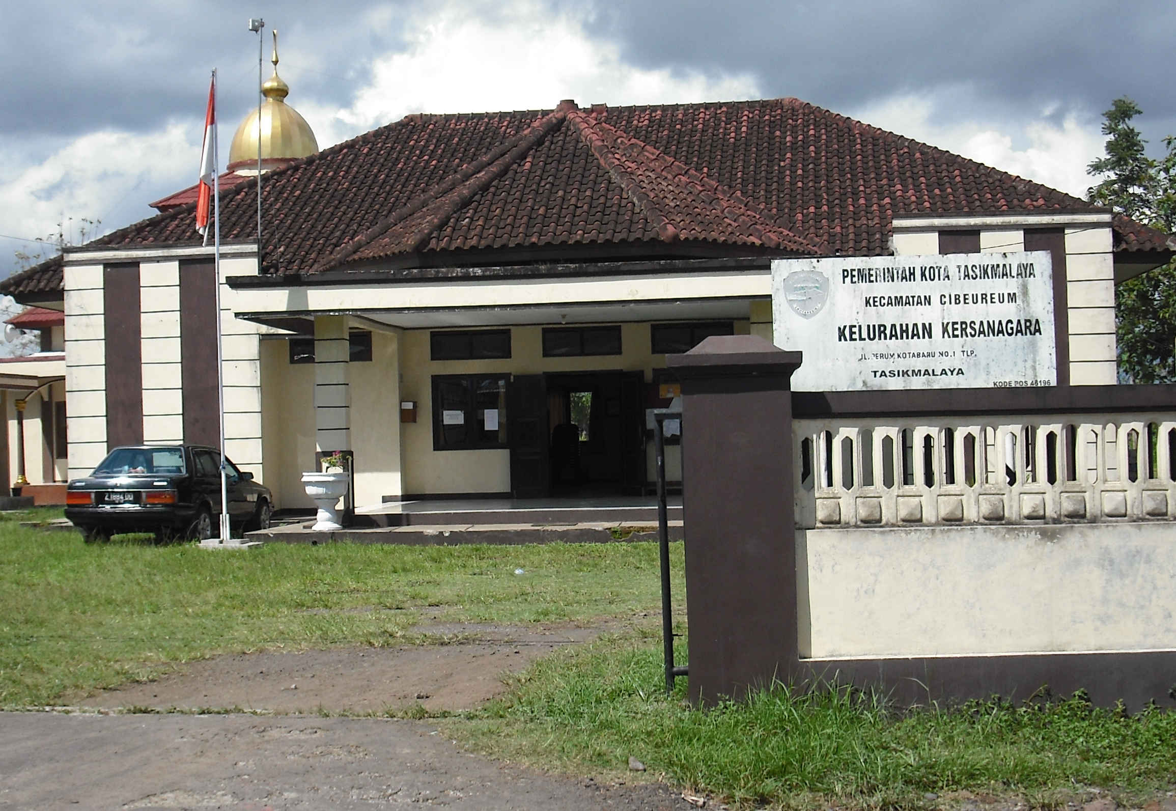 Office Building of Kersanagara Subdistrict, Cibeureum District, Tasikmalaya City, West Java Province, Indonesia